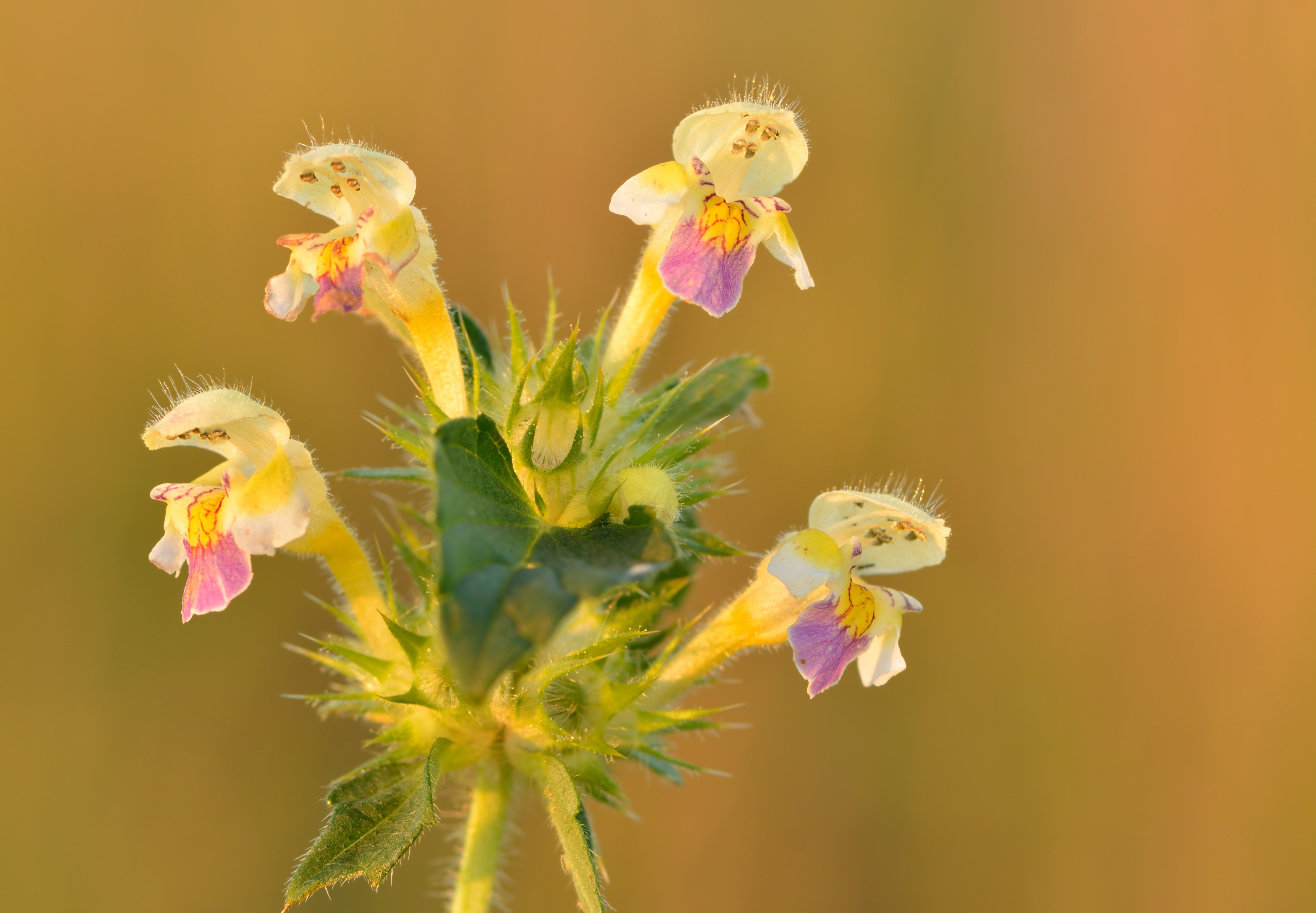 Galeopsis speciosa - large-flowered Hemp-nettle in Keila, Northwestern Estonia.